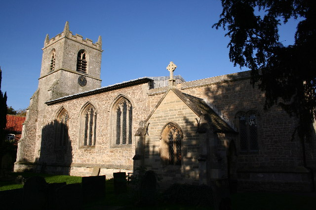 St Giles' parish church, Elkesley, Nottinghamshire, seen from the southeast